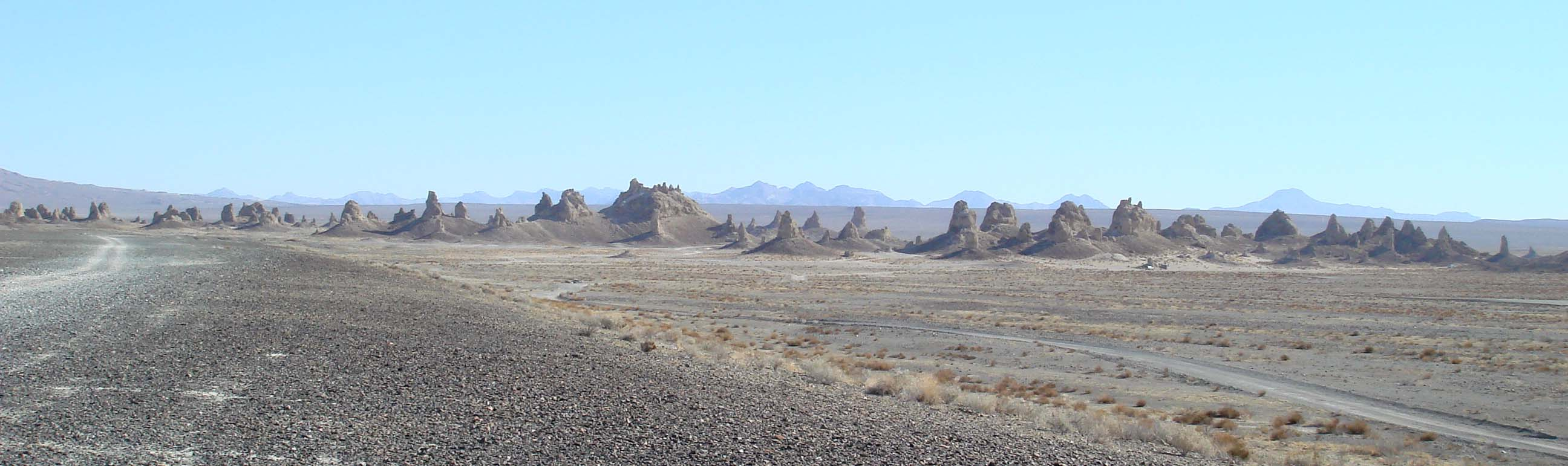 Sweeping view of the Trona Pinnacles